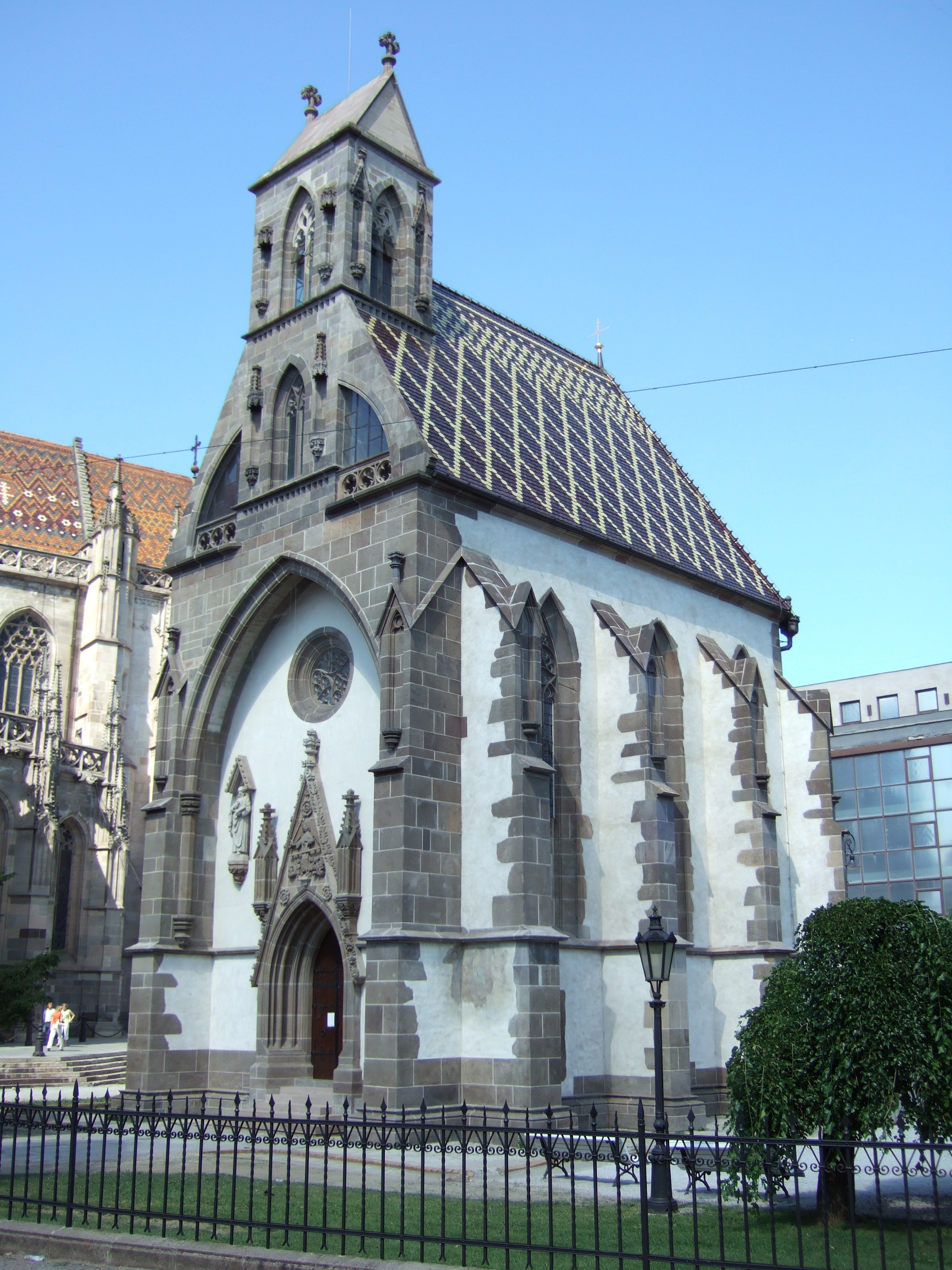 St. Michael‘s Chapel in Košice, Slovakia (after the restoration) This medium shows the protected monument with the number 802-1117/2 in the Slovak Republic.